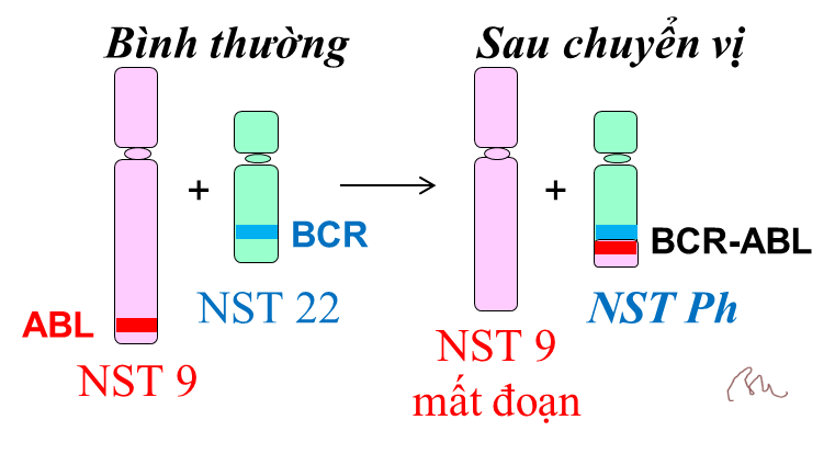 Formation Philadelphia chromosome (schema).